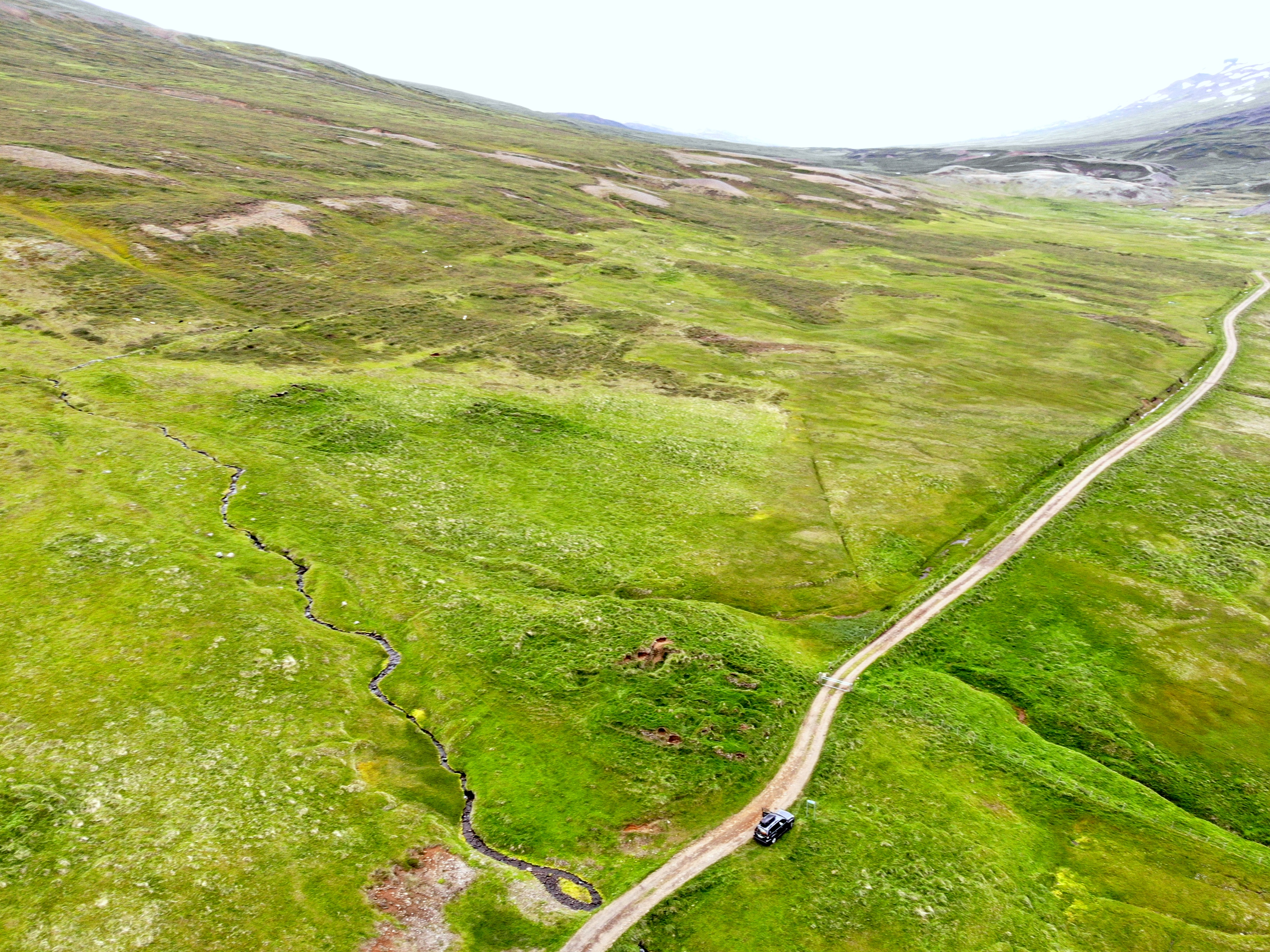 Picture shows what is left of deserted farm Þúfa in Fnjóskadalur (by some considered to be in Flateyjardalsheiði). The farm got deserted in 1935.